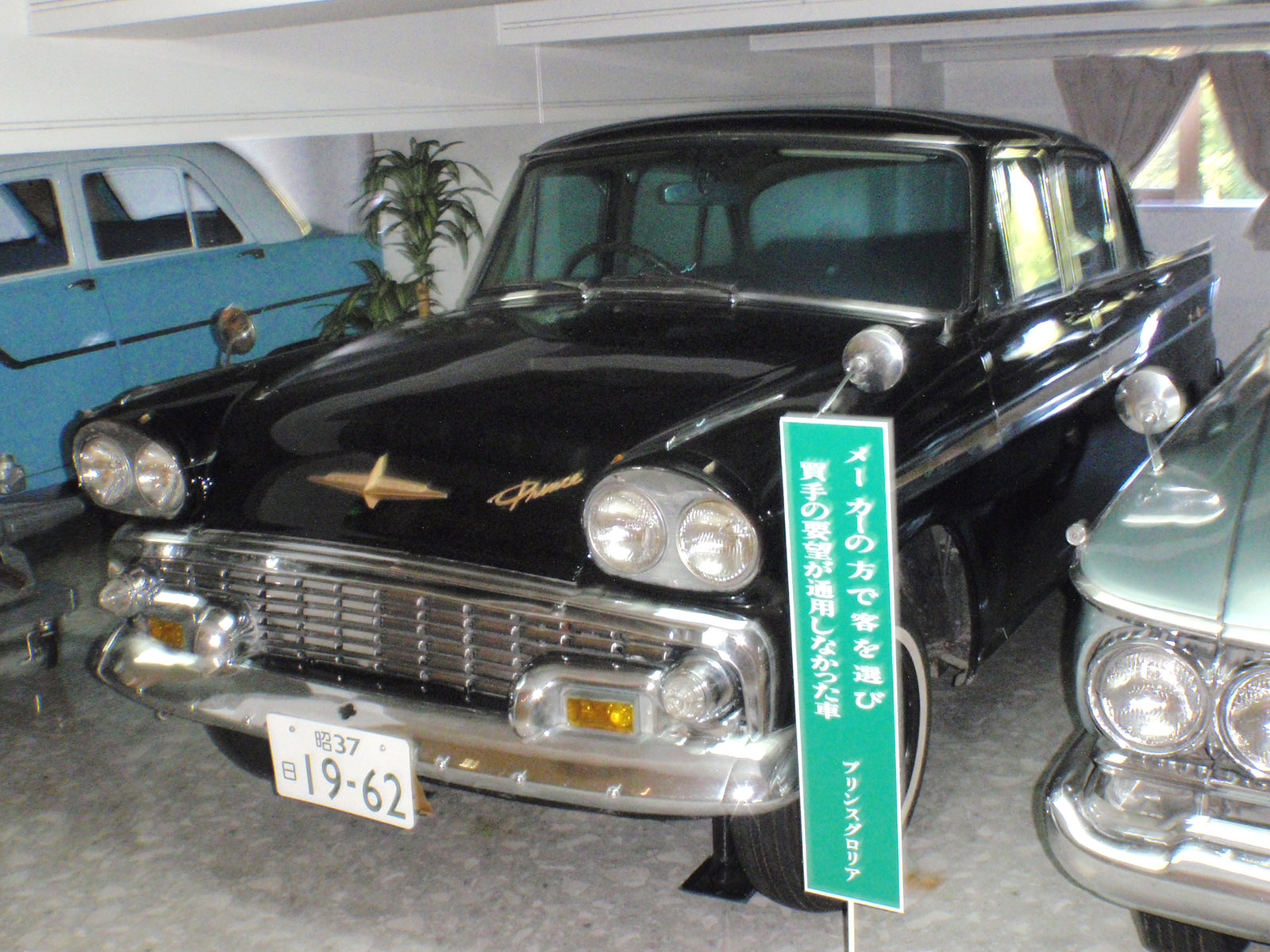 Prince Gloria